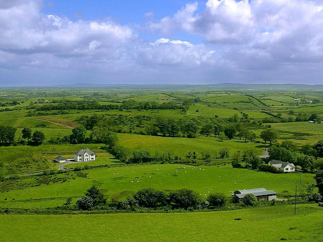 Image title: Ireland fields sky clouds Image from Public domain images website